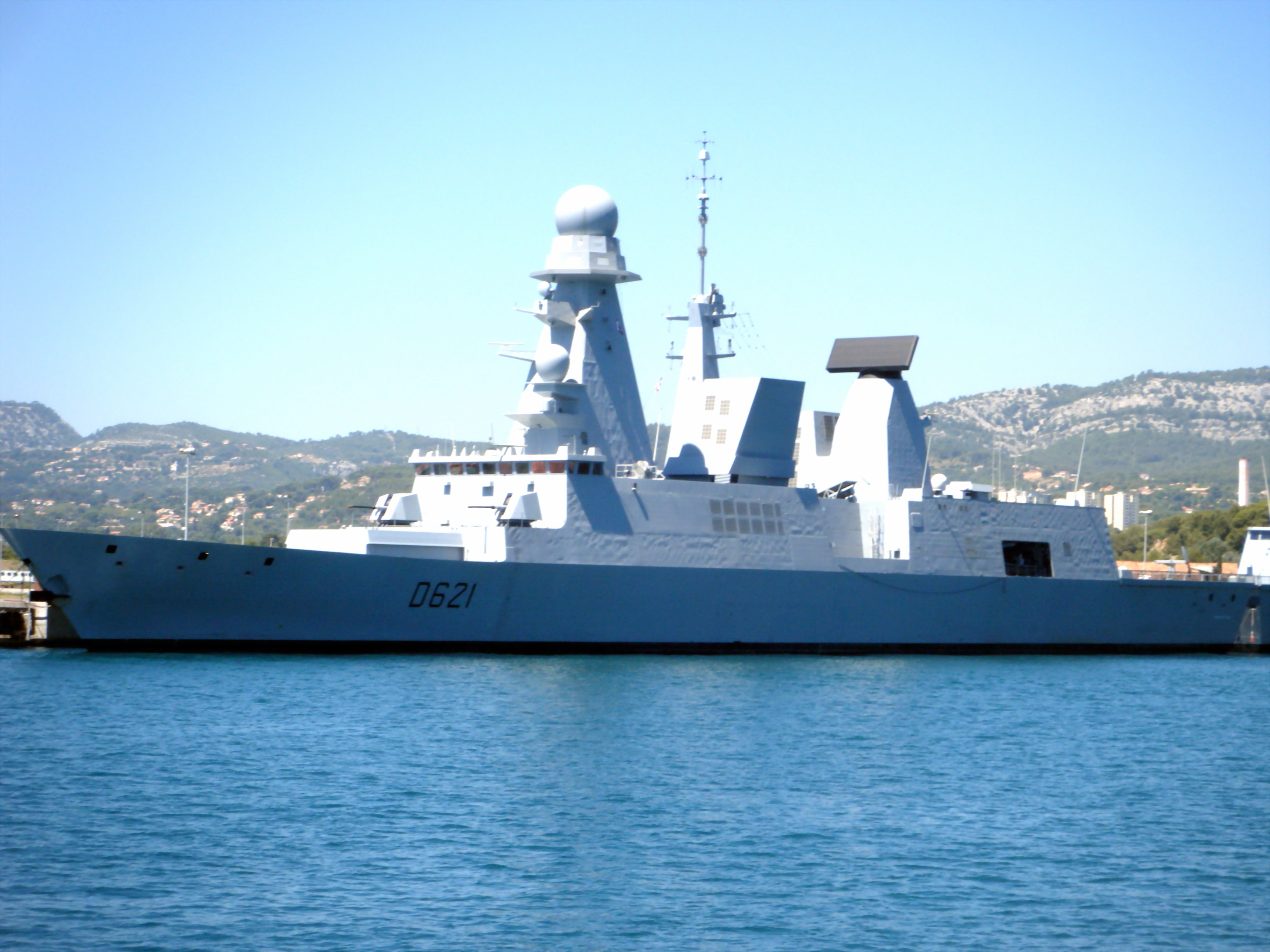 French destroyer Chevalier Paul